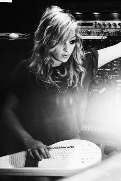 cropped version of File:ISA-AWH-00077.jpeg